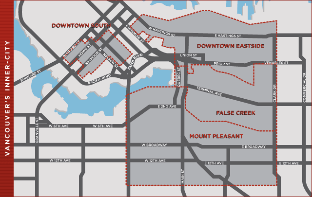 A Map of Vancouver's inner city. The areas in dark grey are where Building Opportunities with Business, a community economic development agency, is mandated to provide employment and economic development services.This map was created by Burst! Creative Group for BOB and is property of Building Opportunities with Business